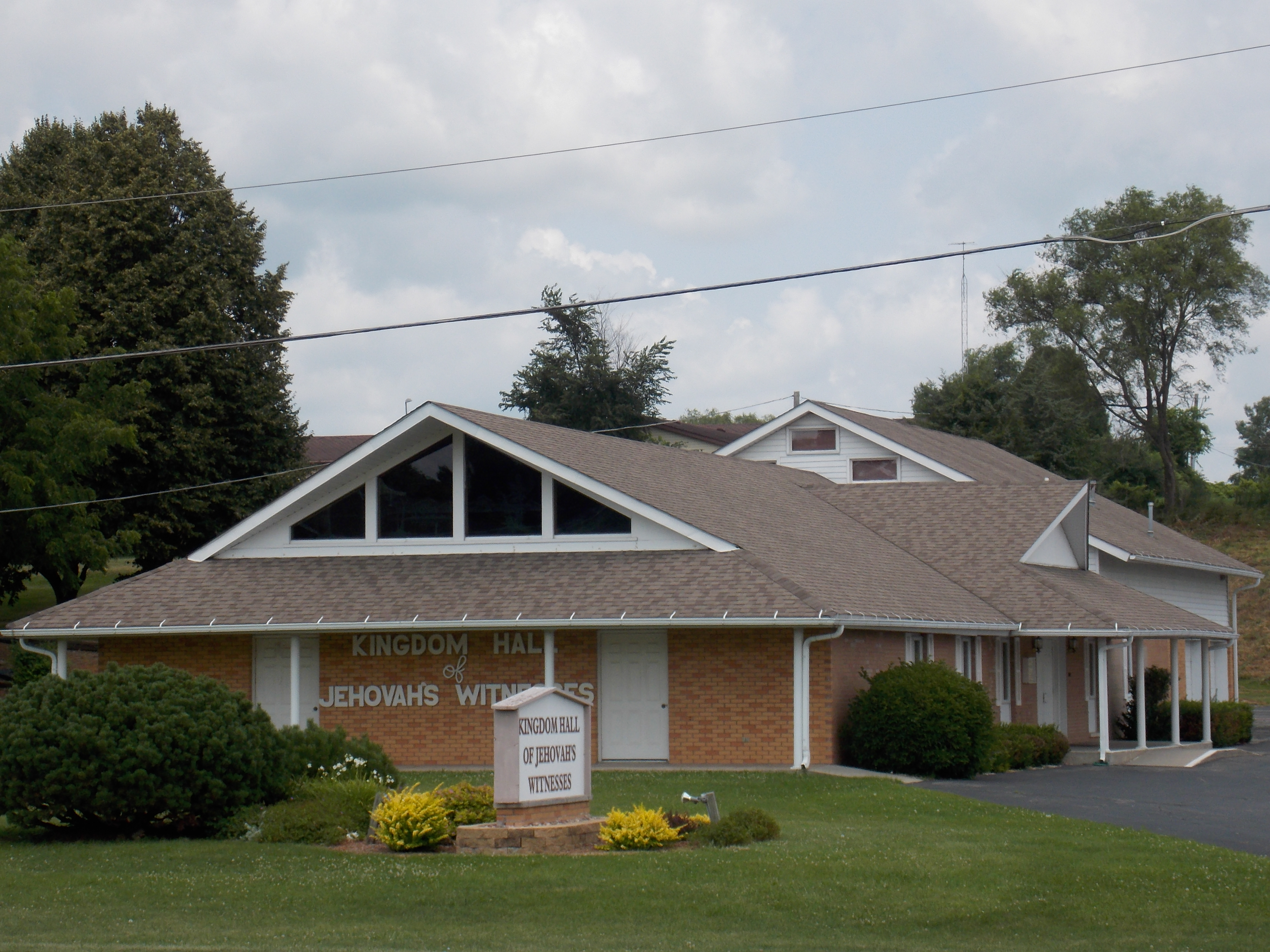 The Kingdom Hall of Jehovah's Witnesses in Maquoketa, Iowa